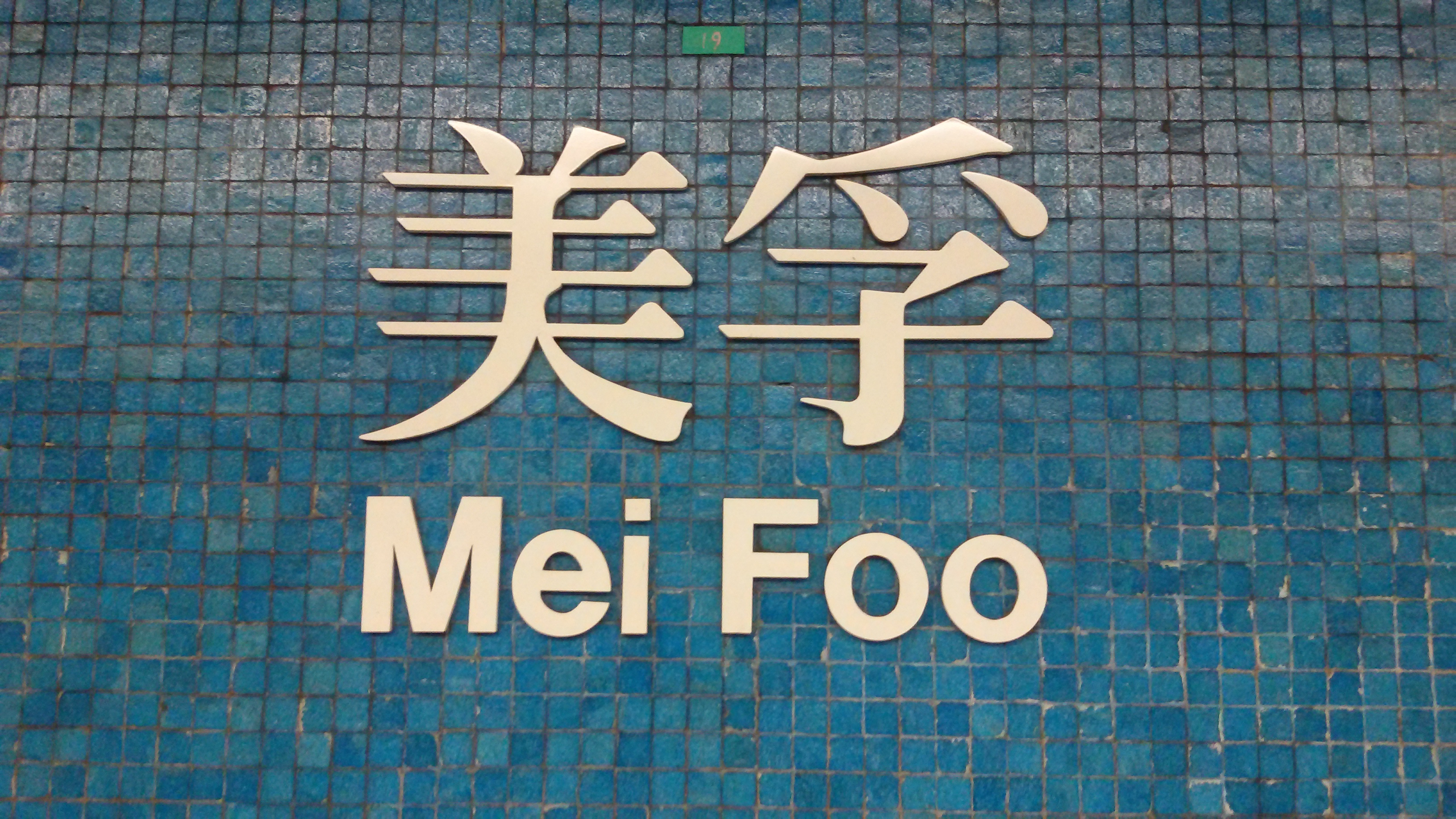 Station Name for Mei Foo Station in HKMTR.